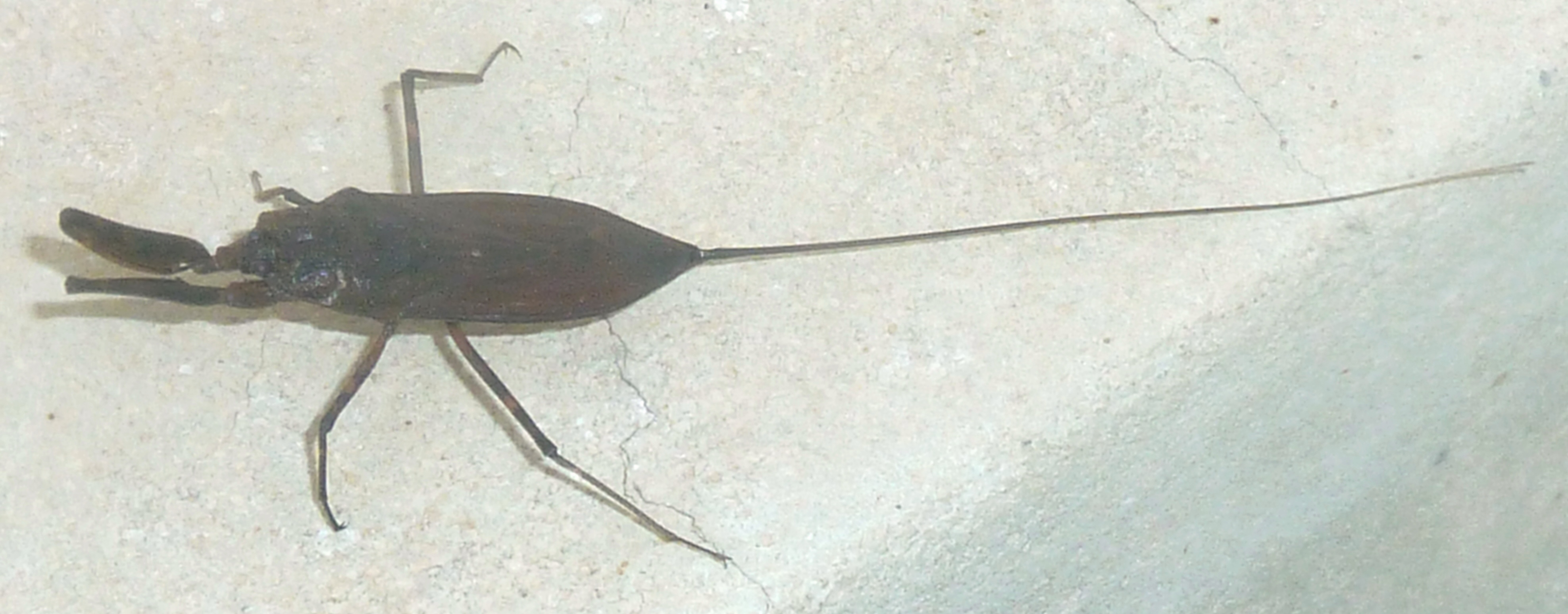 Laccotrephes water scorpion species, possibly L. brachialis, in Pretoria, South Africa. The siphon is about twice the body length.